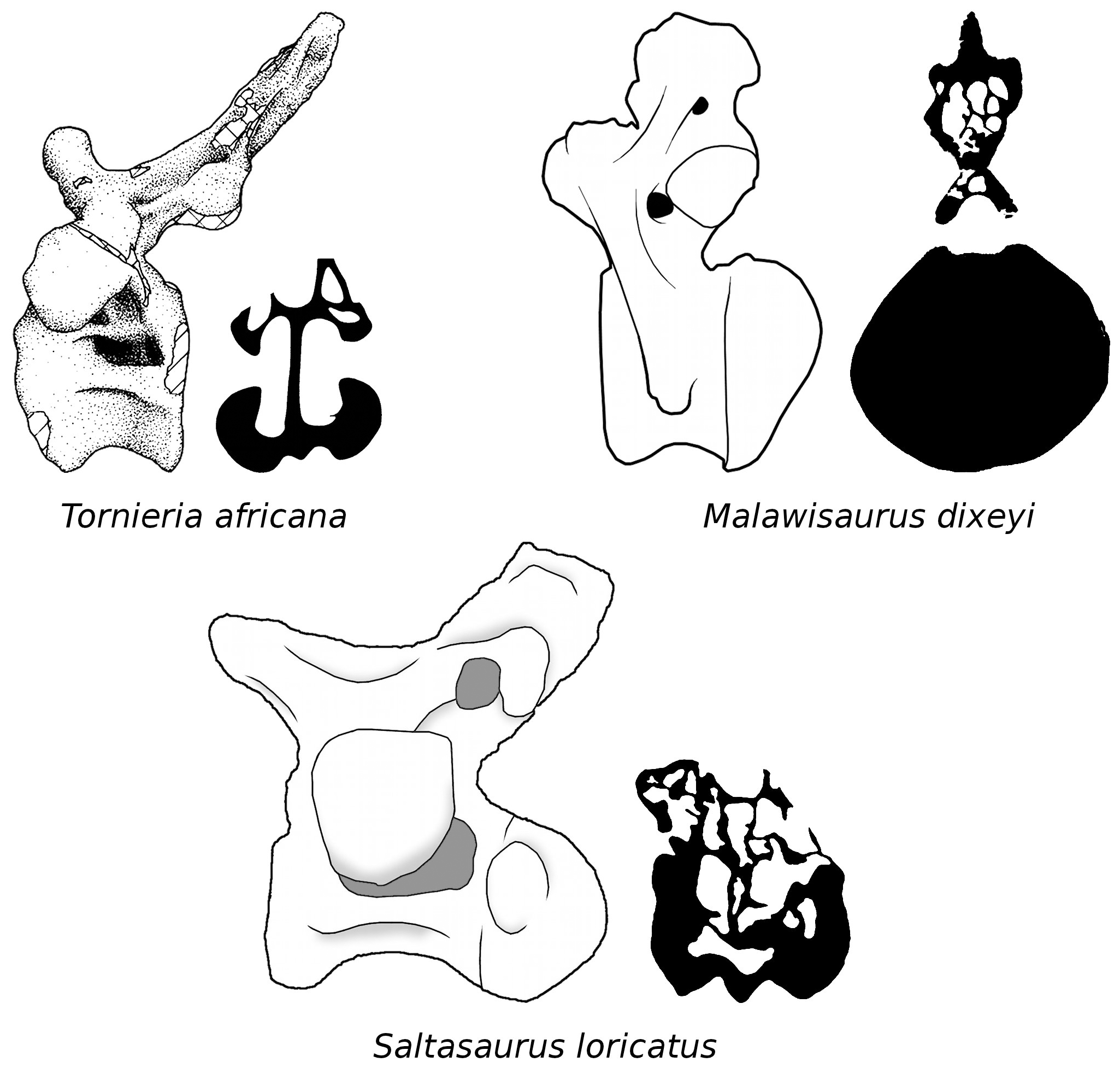 Caudal pneumaticity varies among sauropods. In the diplodocid Tornieria, the first 15–20 caudal vertebrae have neural arch laminae and fossae, and lateral pneumatic foramina opening into large internal chambers. Images traced from Remes ([51]: fig. 31 [lateral view]) and Janensch ([72]: fig. 7 [cross-section]); the two views are from different vertebrae. In the basal titanosaurian Malawisaurus, caudal pneumaticity is restricted to a handful of proximal caudal vertebrae, in which the neural arches are honeycombed with pneumatic chambers but the vertebral centra are solid. Images traced from Wedel ([12]: fig. 2A [lateral view] and 2C [cross-section]). In the derived titanosaurian Saltasaurus, the first 20–25 caudal vertebrae have large external fossae but small external foramina, and both the neural arches and centra are honeycombed with chambers. Images traced from Powell ([59]: plate 53 [lateral view]) and Cerda et al [20]: fig. 4F [cross-section]); the two views are from different vertebrae.